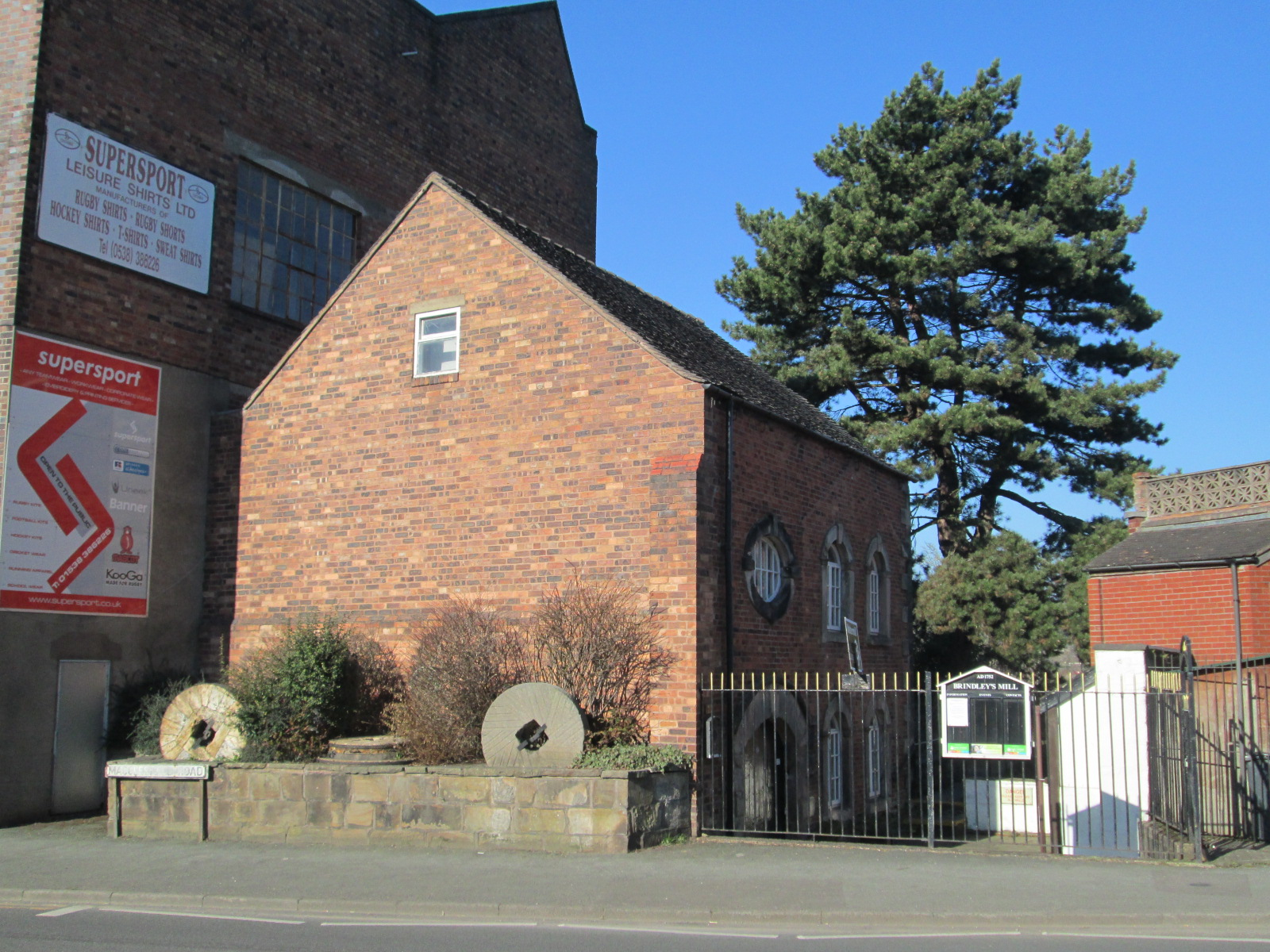 Water mill in Leek, Staffordshire, built in 1752 by James Brindley.